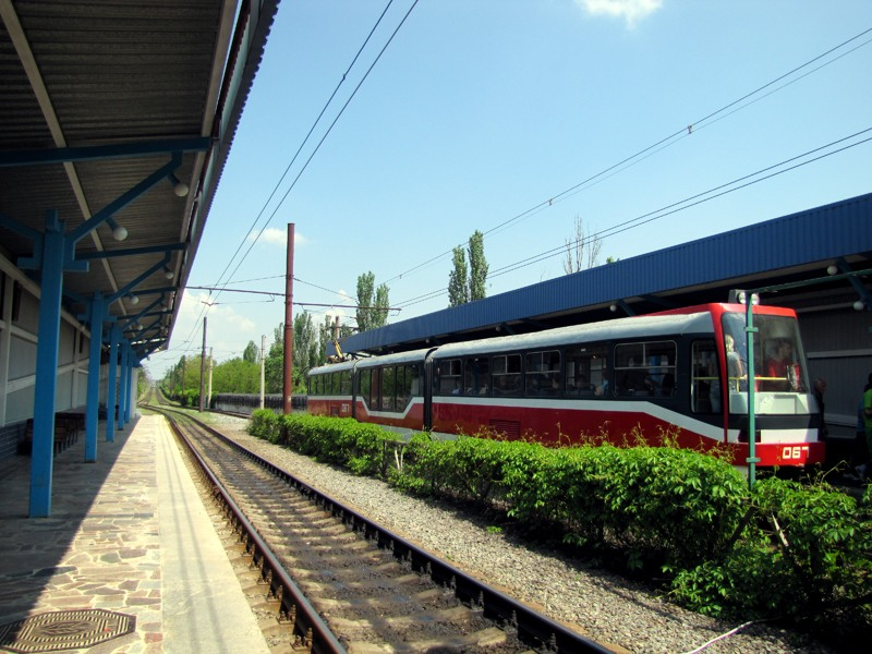 Metrotram car